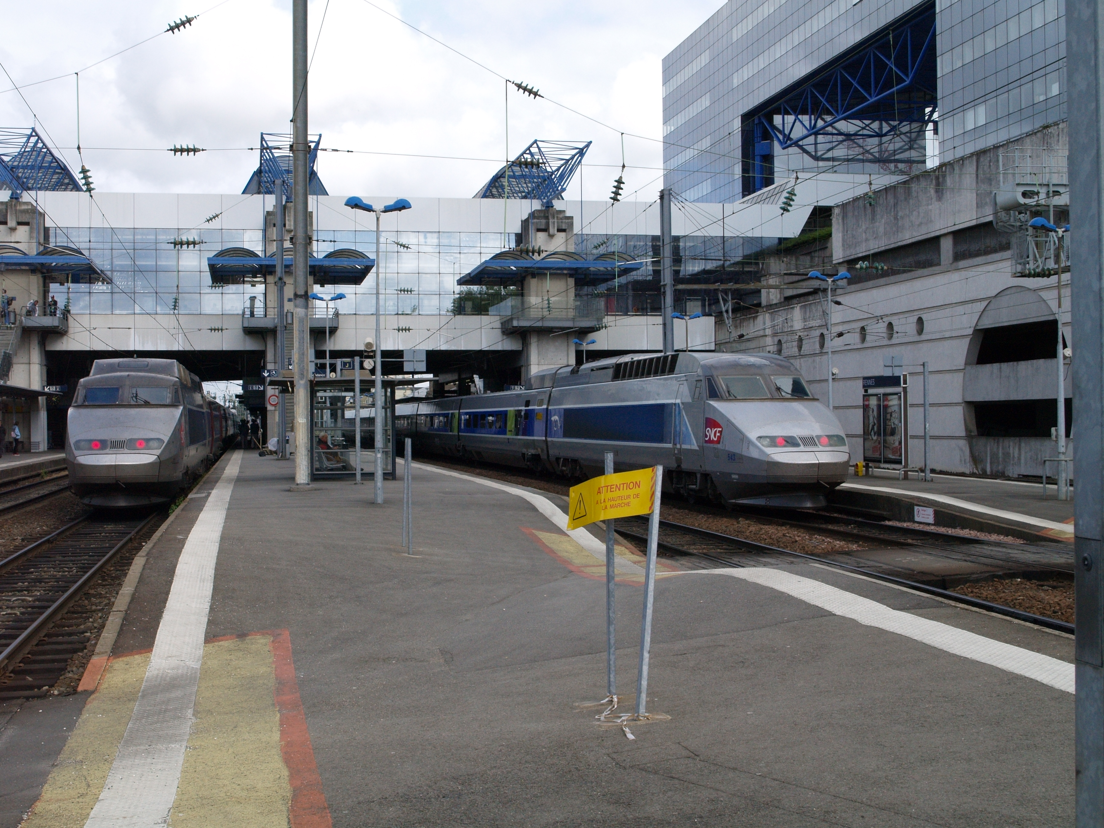 Two TGVs (Sud-Est and Réseau) in the station of Rennes, France.